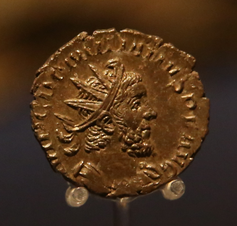 Photo of Obverse of the Ashmolean Museum coin of Domitianus II